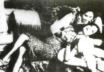 Still from Alam Ara (1931), directed by Ardeshir Irani (first Indian sound film).